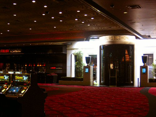 Joel Robuchon at the Mansion at the MGM Grand